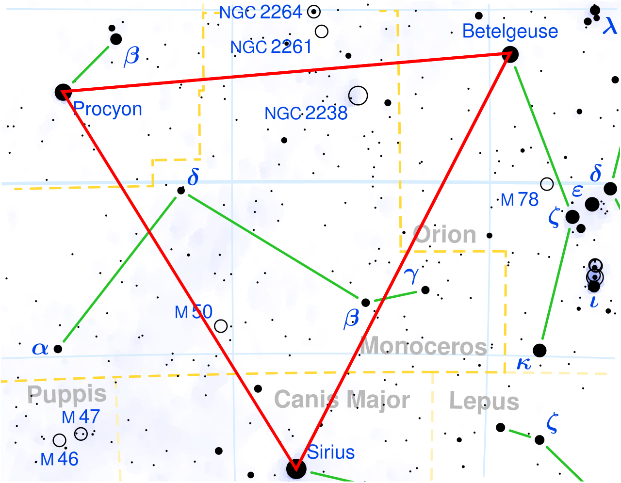 The Winter Triangle surrounding the constellation Monoceros